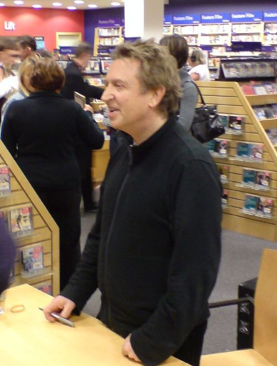 Guitarist Andy Summers of The Police